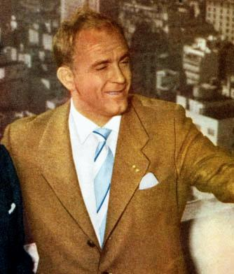 Argentine football player Alfredo Di Stéfano in 1958.